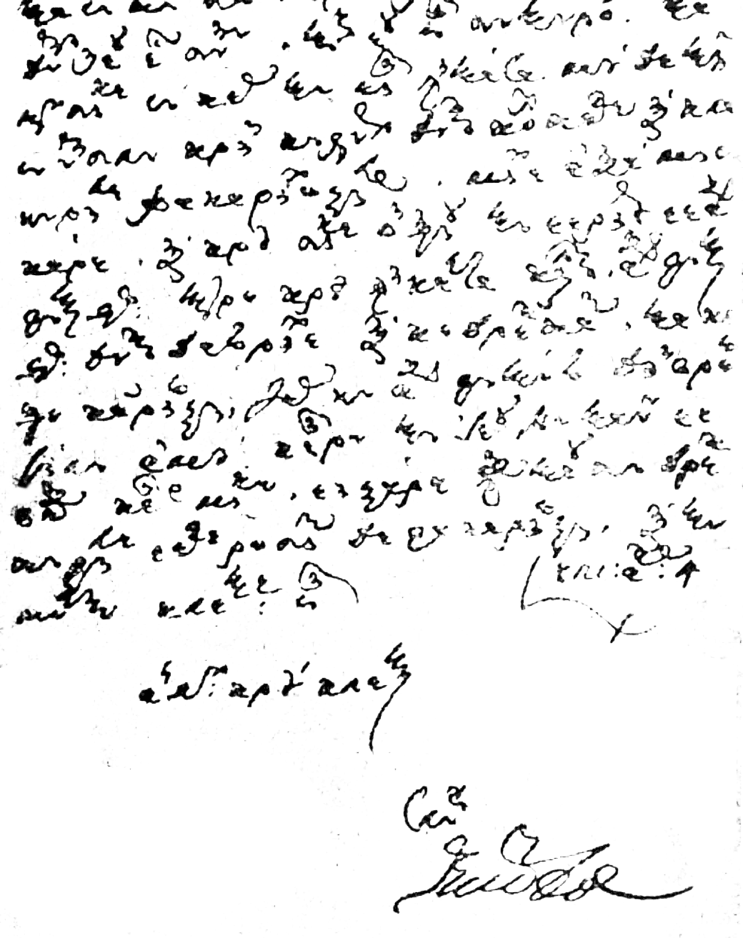 Letter from Tudor Vladimirescu, the Wallachian rebel and occupier of Bucharest, to the boyar representative Alecu Filipescu-Vulpea. Written in cursive Romanian Cyrillic, with Vladimirescu's signature at the bottom; dated to March or April 1821.